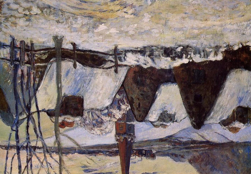 Breton Village under Snow showed upside down at the auction in Papeete 1903, and sold by the auctioneer as "The Niagara Falls".